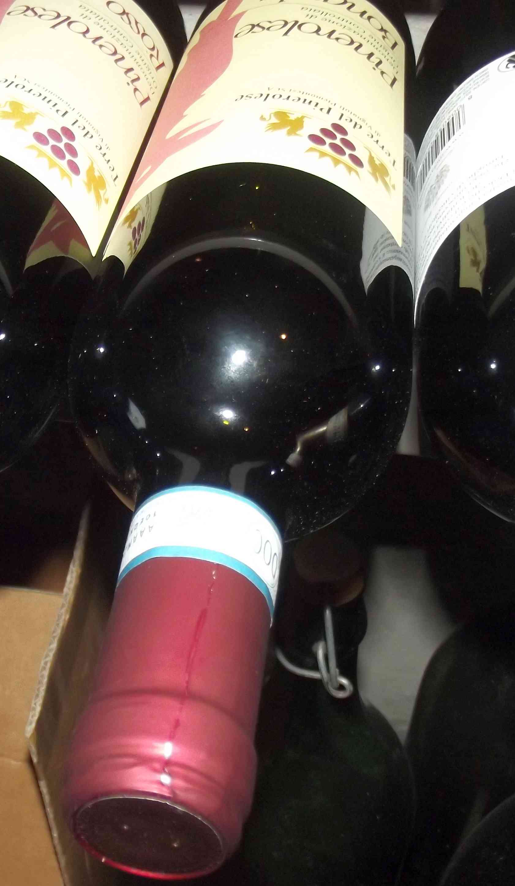 Pinerolese DCO Bonarda